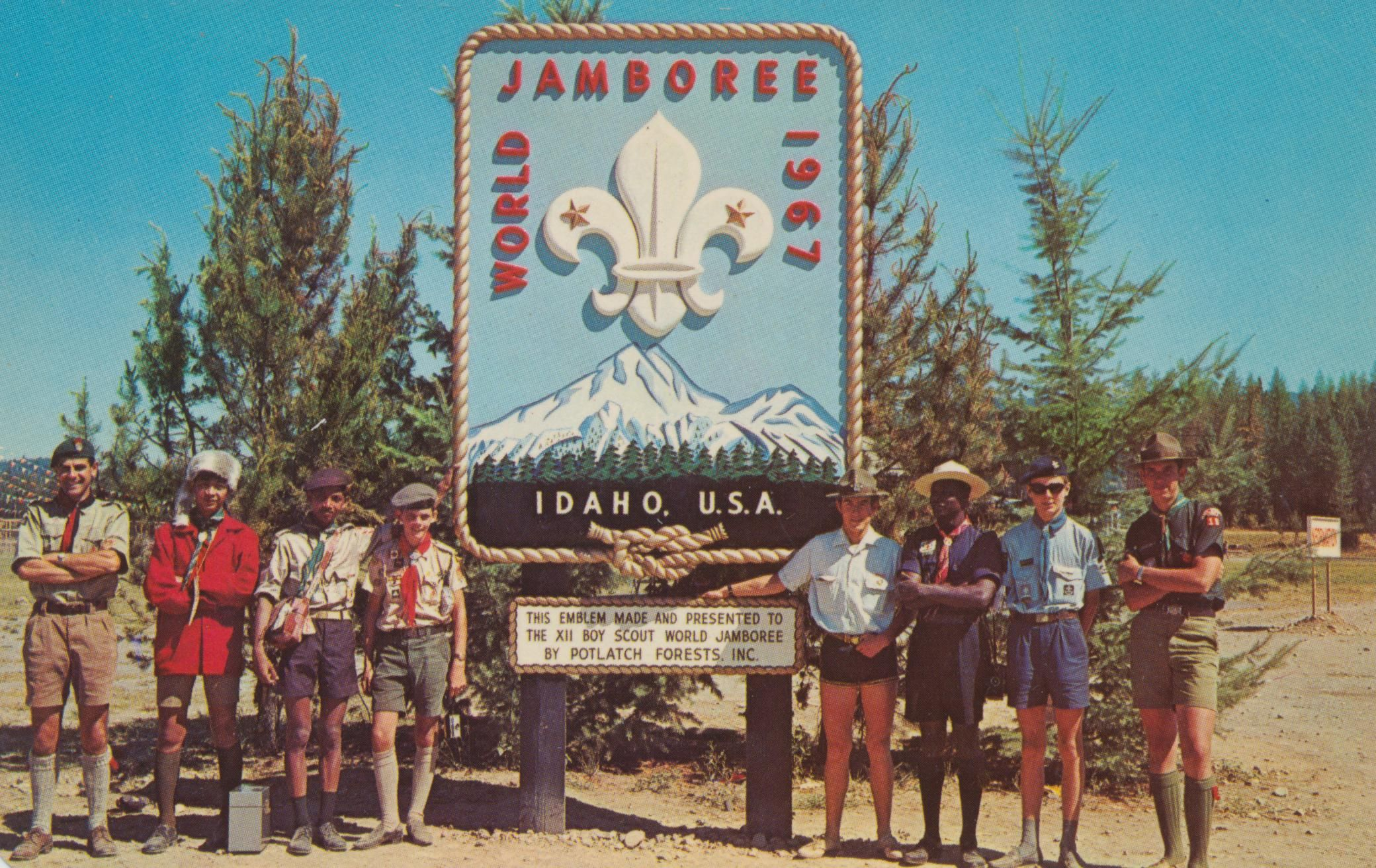 August 1-9, 1967, at Farragut State Park, North Idaho. About 12,000 Boy Scouts from 108 nations attended this first World Jamboree to be hosted in the Americas. These boys, from L to R, are from the following nations: England, Philippines, Indonesia, France, Canada, Jamaica, Sweden, U.S.A.